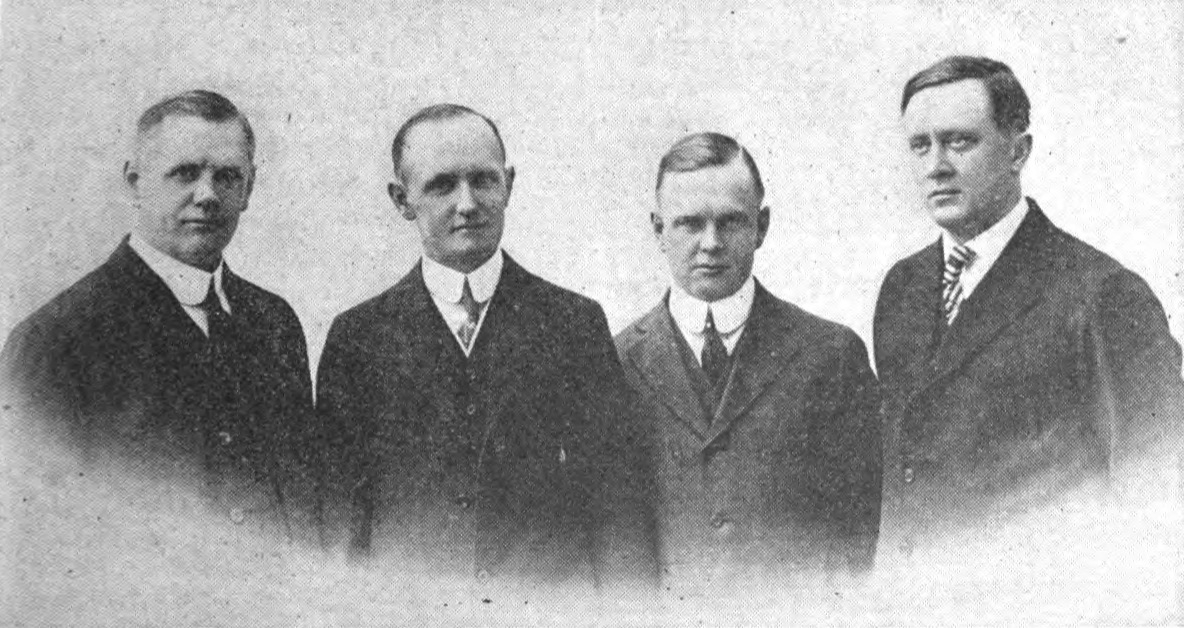 North Shore Bulletin, volume 4, issue 2, Chicago: Chicago North Shore & Milwaukee Railroad, December 1920: “Founders of the Harley-Davidson Motor Co. Wm. A. Davidson, Vice President and Works Manager; Walter Davidson, President and General Manager; Arthur Davidson, Secretary and Sales Manager; William S. Harley, Treasurer and Chief Engineer.”